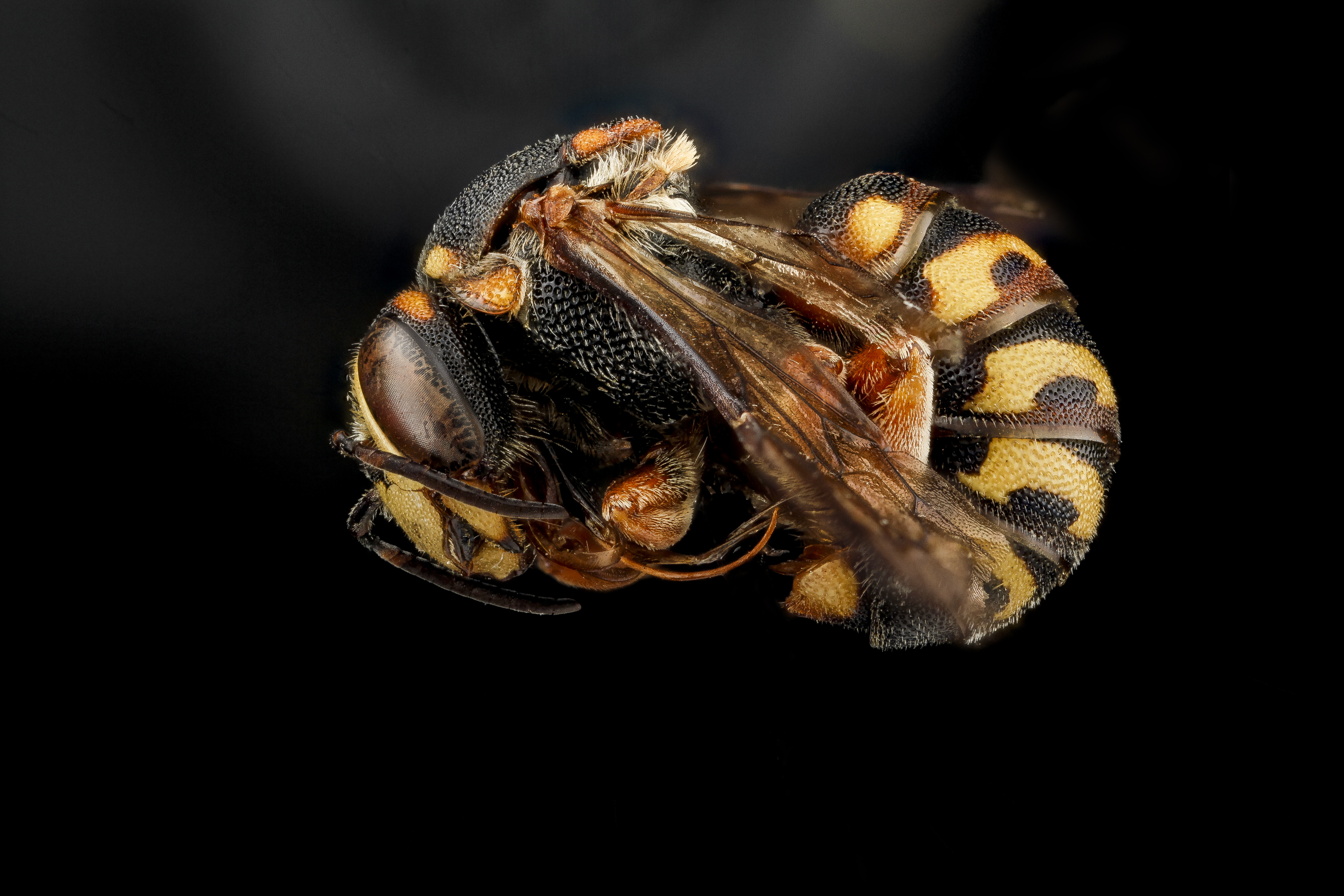 South Dakota, Badlands national Park